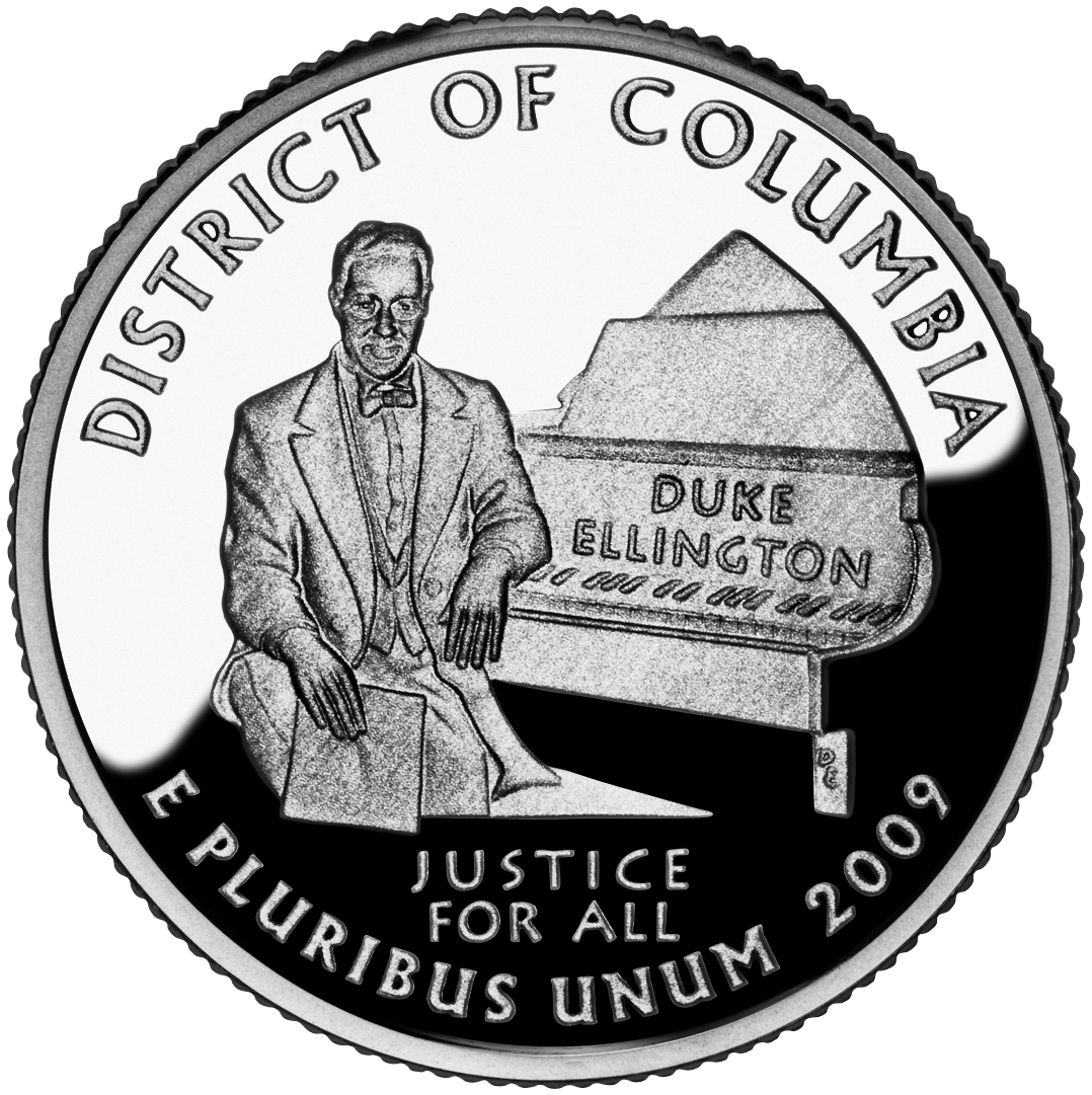 Washington, D.C. state quarter. This image depicts a unit of currency issued by the United States of America. If Fraudulent use of this image is punishable under applicable counterfeiting laws. As listed by the United States Secret Service at money illustrations, the Counterfeit Detection Act of 1992, Public Law 102-550, in Section 411 of Title 31 of the Code of Federal Regulations (31 CFR 411), permits color illustrations of U.S. currency provided:1. The illustration is of a size less than three-fourths or more than one and one-half, in linear dimension, of each part of the item illustrated;2. The illustration is one-sided; and3. All negatives, plates, positives, digitized storage medium, graphic files, magnetic medium, optical storage devices, and any other thing used in the making of the illustration that contain an image of the illustration or any part thereof are destroyed and/or deleted or erased after their final use. Certain coins contain copyrights licensed to the U.S. Mint and owned by third parties or assigned to and owned by the U.S. Mint [1]. For the United States Mint circulating coin design use policy, see [2]; for the policy on the 50 State Quarters, see [3]. Also: COM:ART #Photograph of an old coin found on the Internet